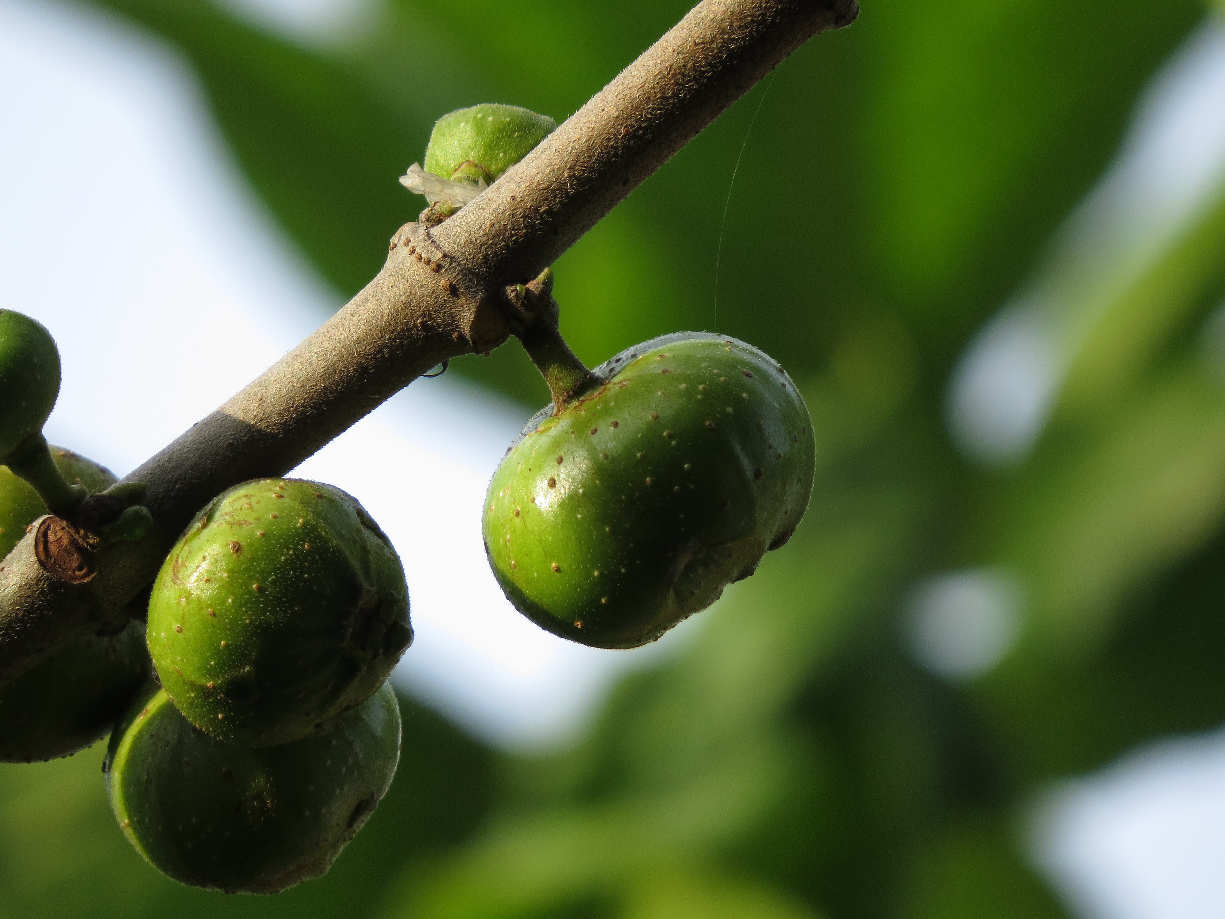 Ficus racemosa, Huế, Việt Nam